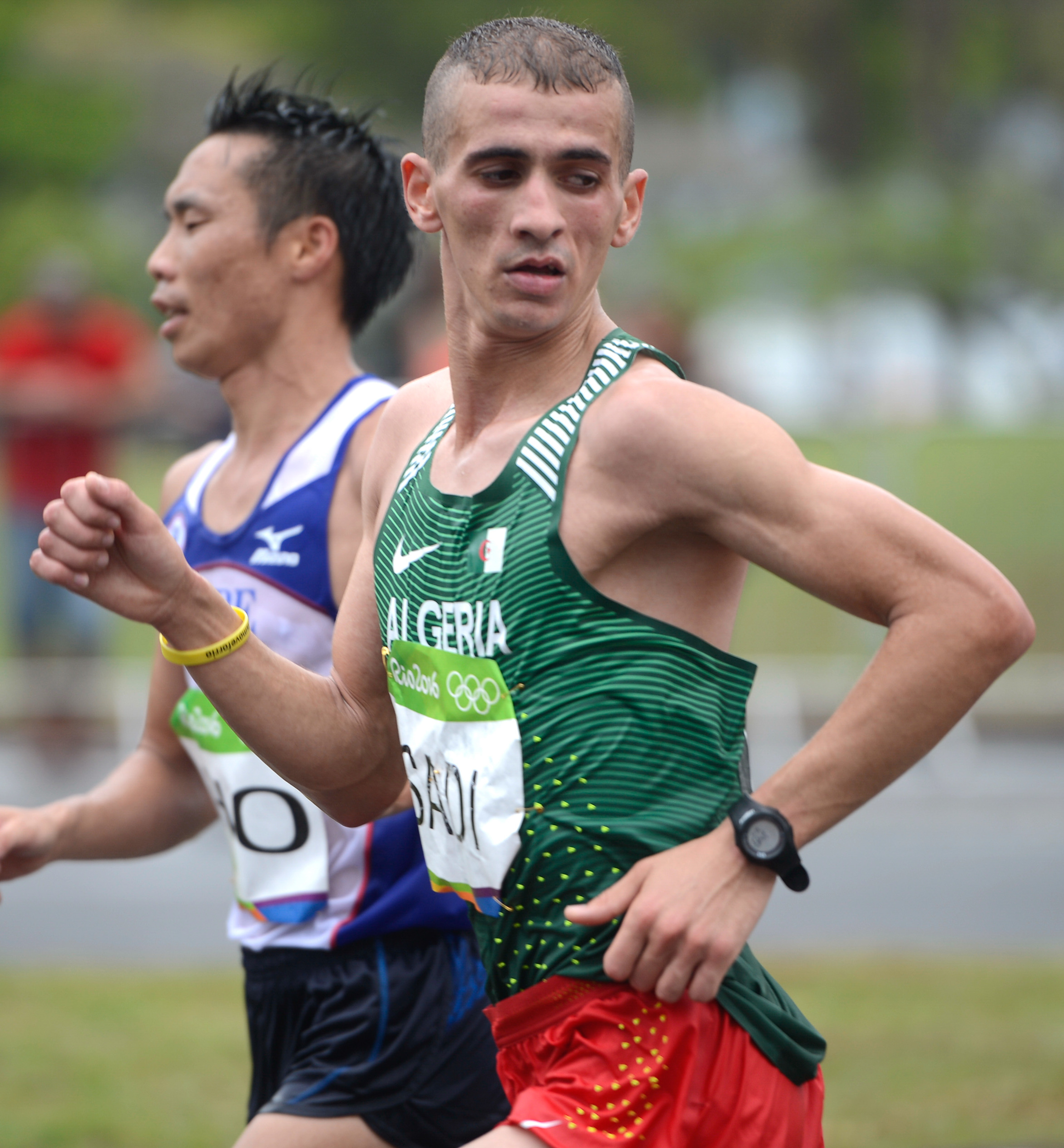 Rio de Janeiro - Sob chuva forte atletas da maratona masculina passam pelo aterro do Flamengo (Tânia Rêgo/Agência Brasil)